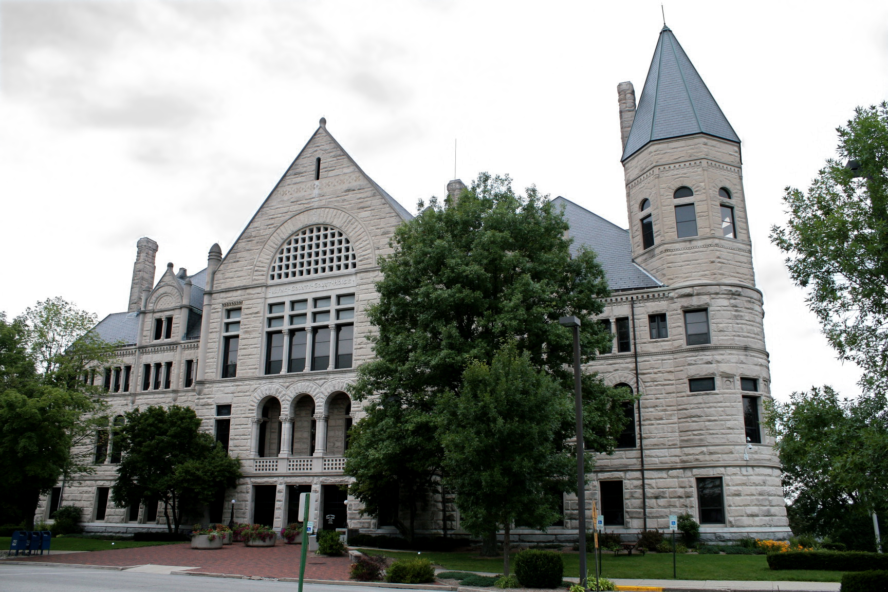 Wayne County Indiana Courthouse Photo by Greg Hume.